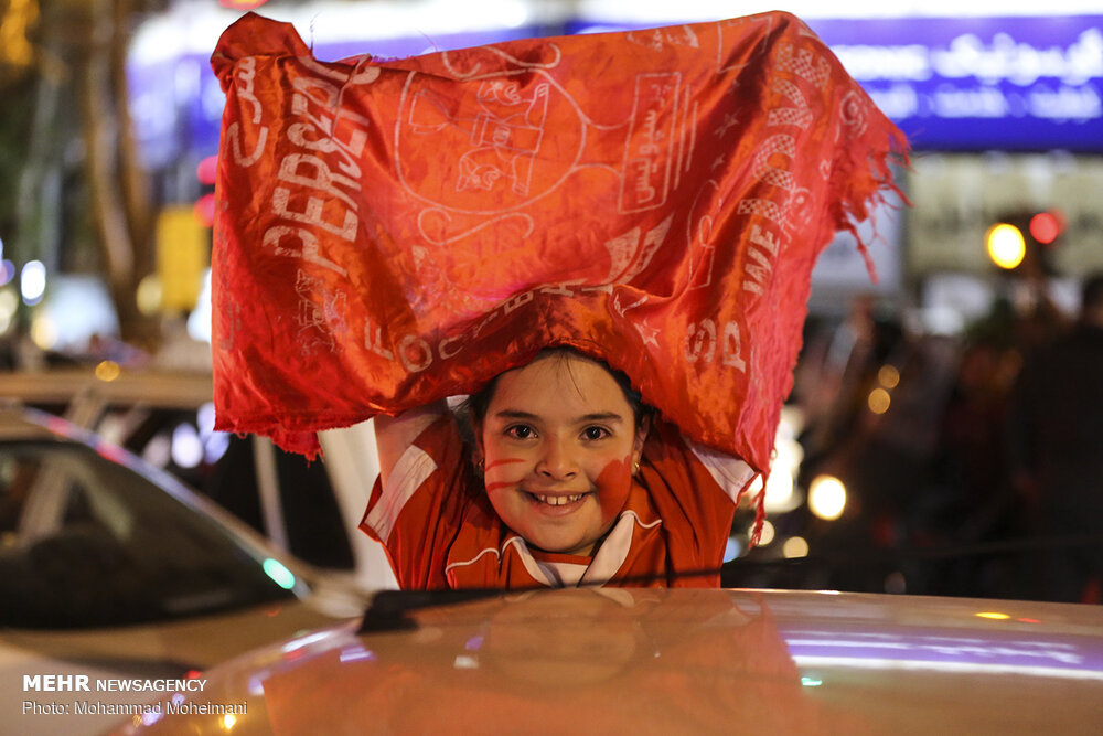 Celebration In Tehran Streets after Persepolis F.C. championship in 2018–19 Persian Gulf Pro League.